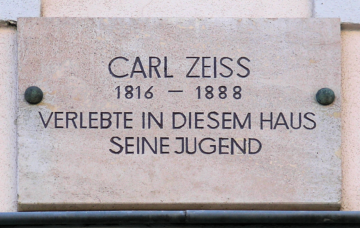 Memorial plaque, Carl Zeiss, Kaufstraße 1, Weimar, Germany Koordinate:52°58′47″N 11°19′45″E / 52.97972°N 11.32917°E